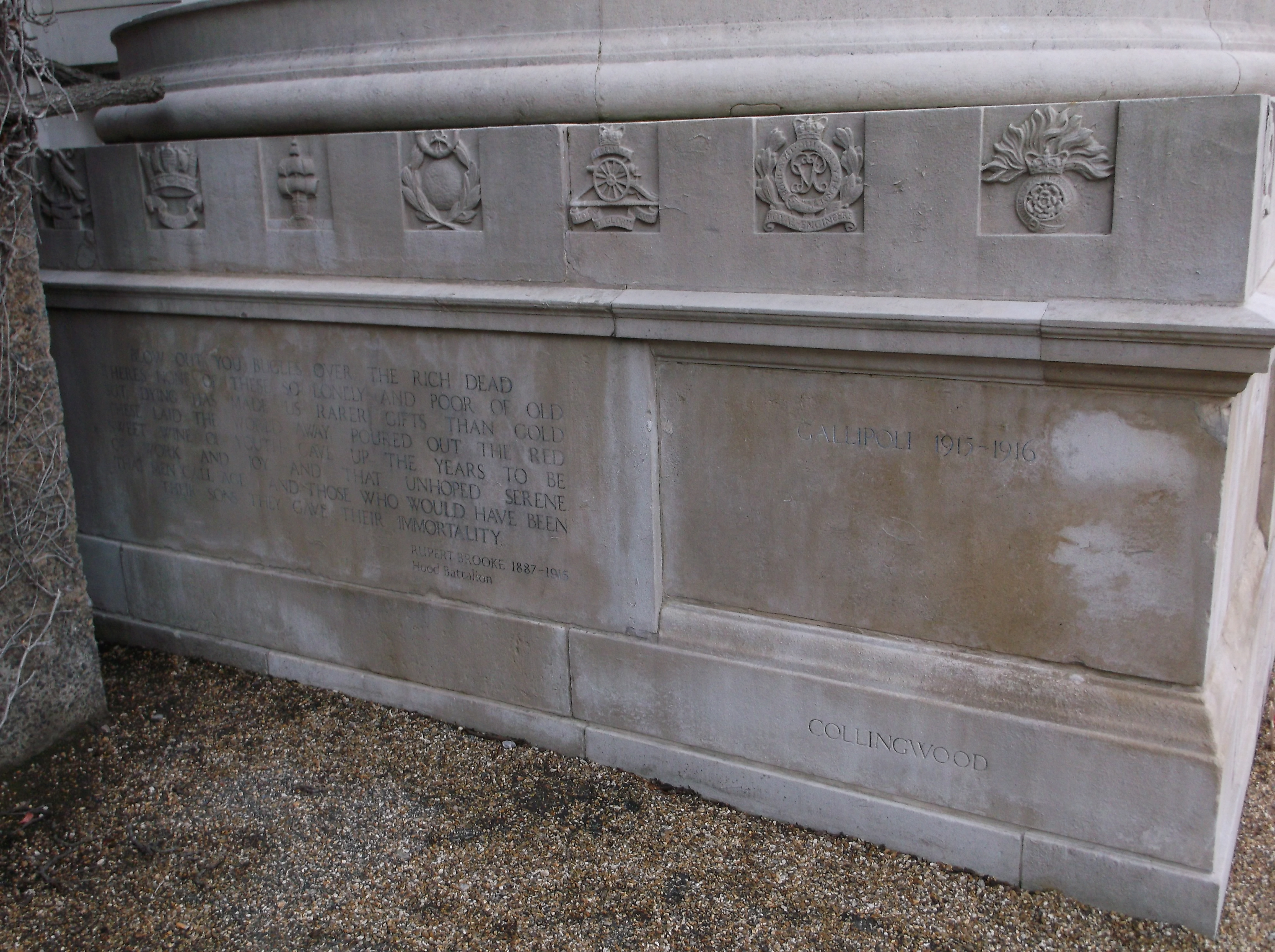 Sir Edwin Lutyens' memorial to the 45,000 members of the Royal Naval Division who died in the First World War, situated on Horseguards Parade, London, next to the former Admiralty Building.